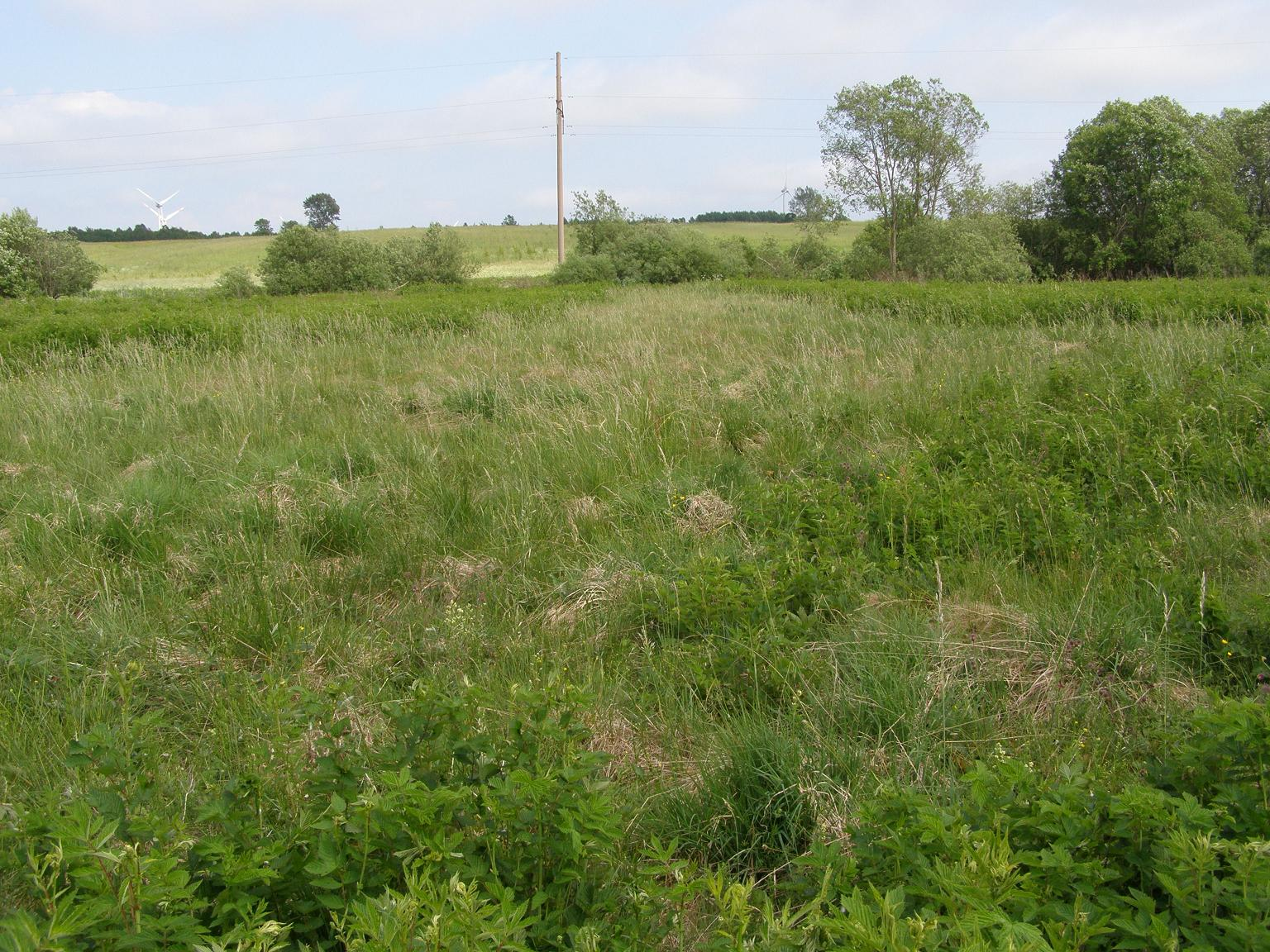 Sūdėnai, Kretinga district, Lithuania